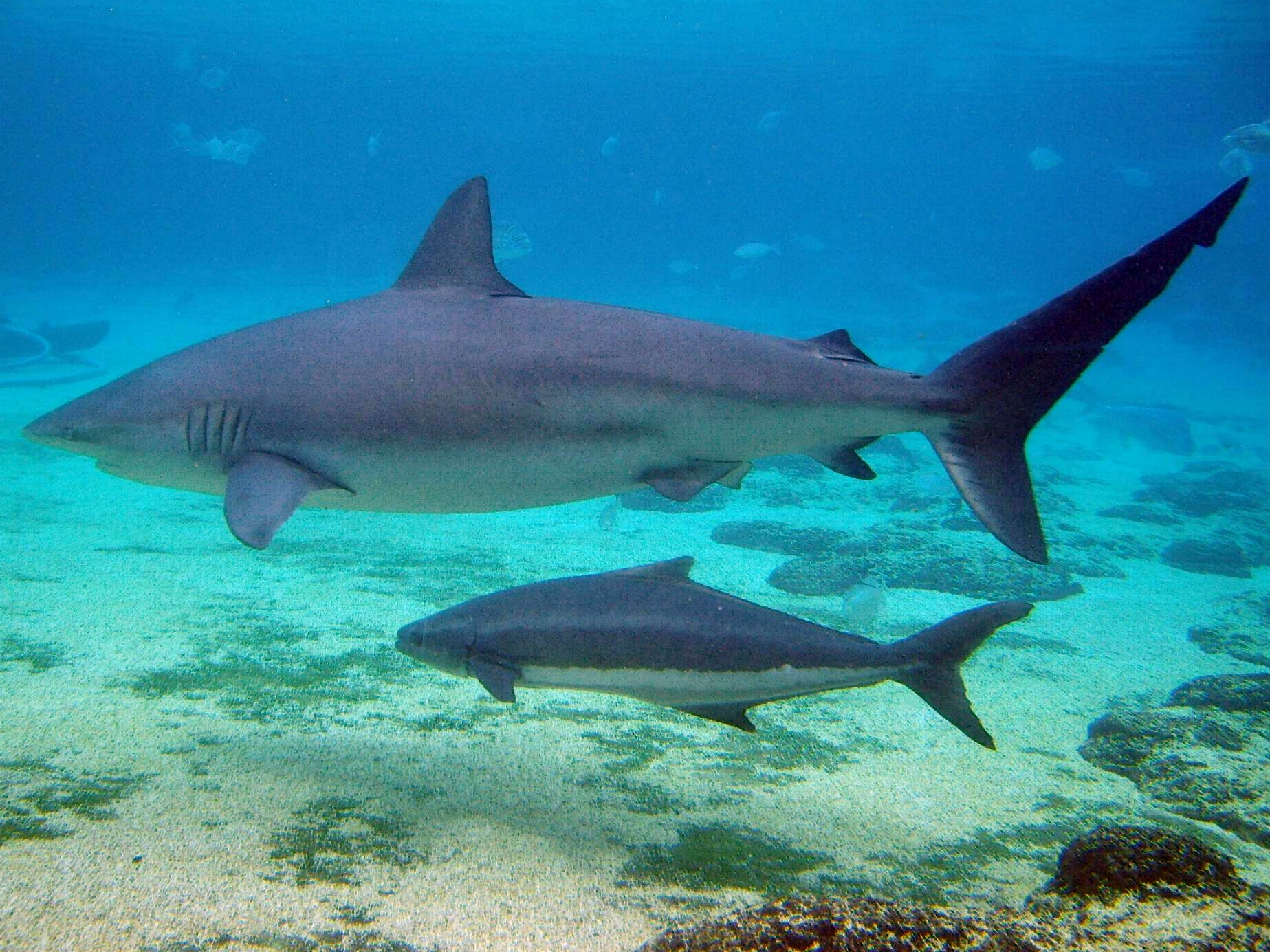 Dusky shark (Carcharhinus obscurus) being shadowed by a cobia (Rachycentron canadum) at Sea World Australia.